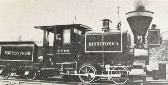 Northern Pacific 4 page brochure detailing its locomotives of past and (then) present. This is the entire brochure. This is a photo of the Minnetonka, the NP's first locomotive. It was built by Smith & Porter in 1870 and is part of the Lake Superior Railroad Museum in Duluth, MN.